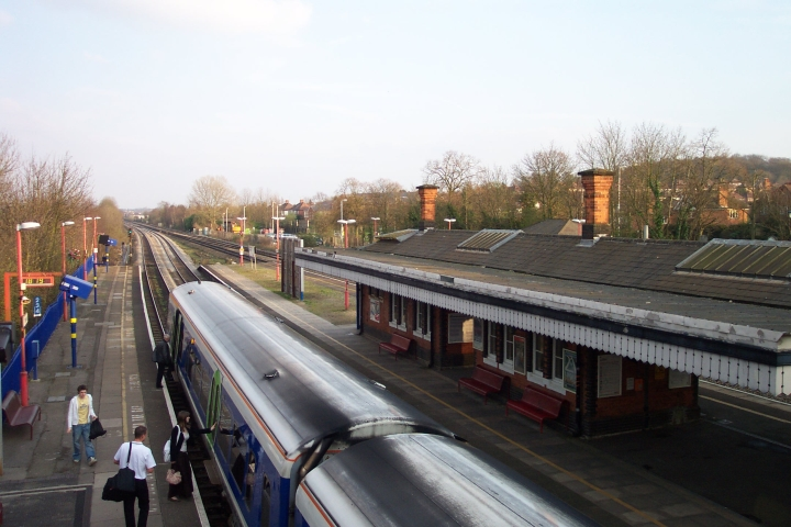 Tilehurst railway station relief line platforms, from the station footbridge. For more information see the Wikipedia article Tilehurst railway station.